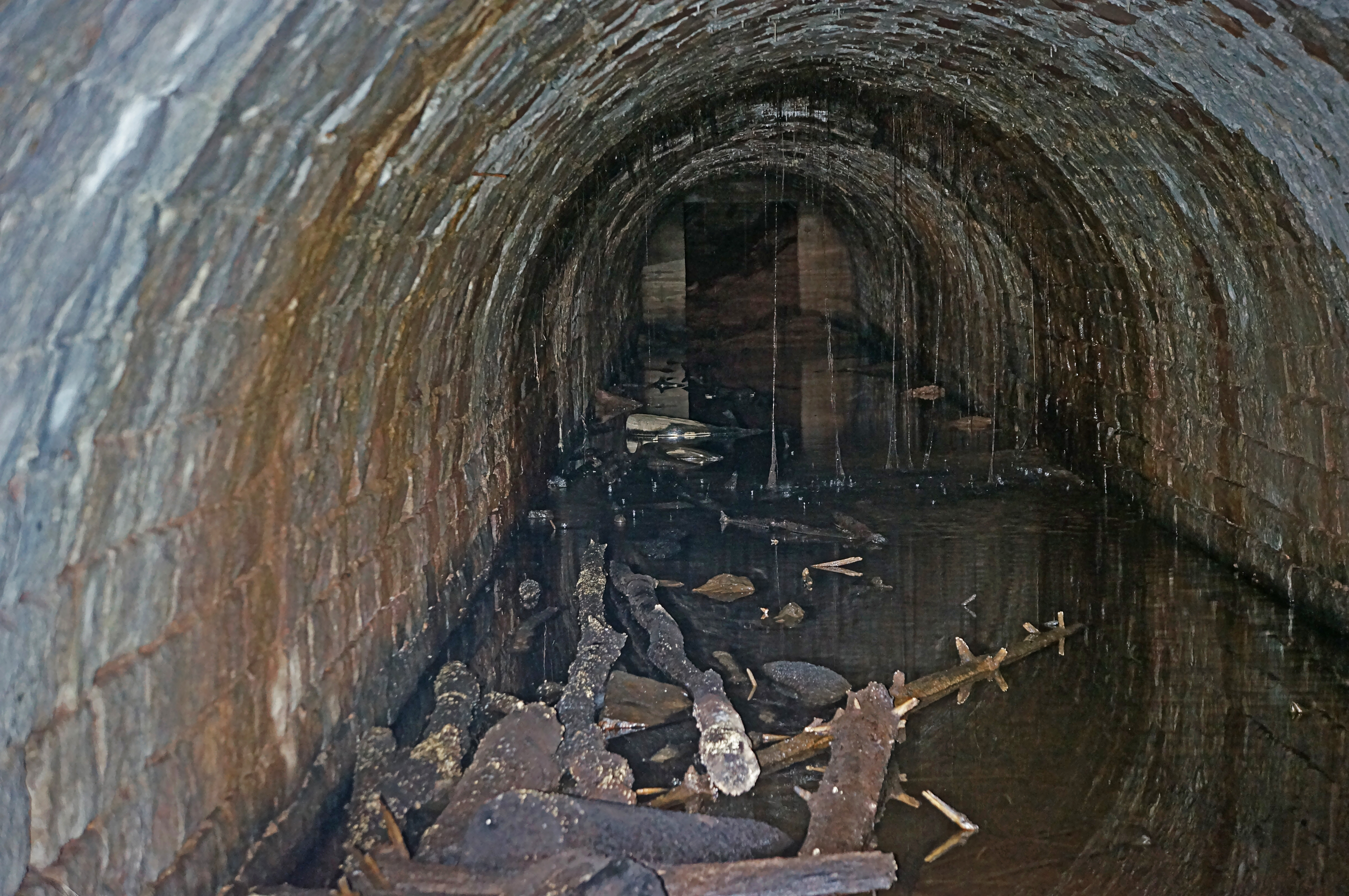 Mausbach mine near Heidelberg. Main adit.